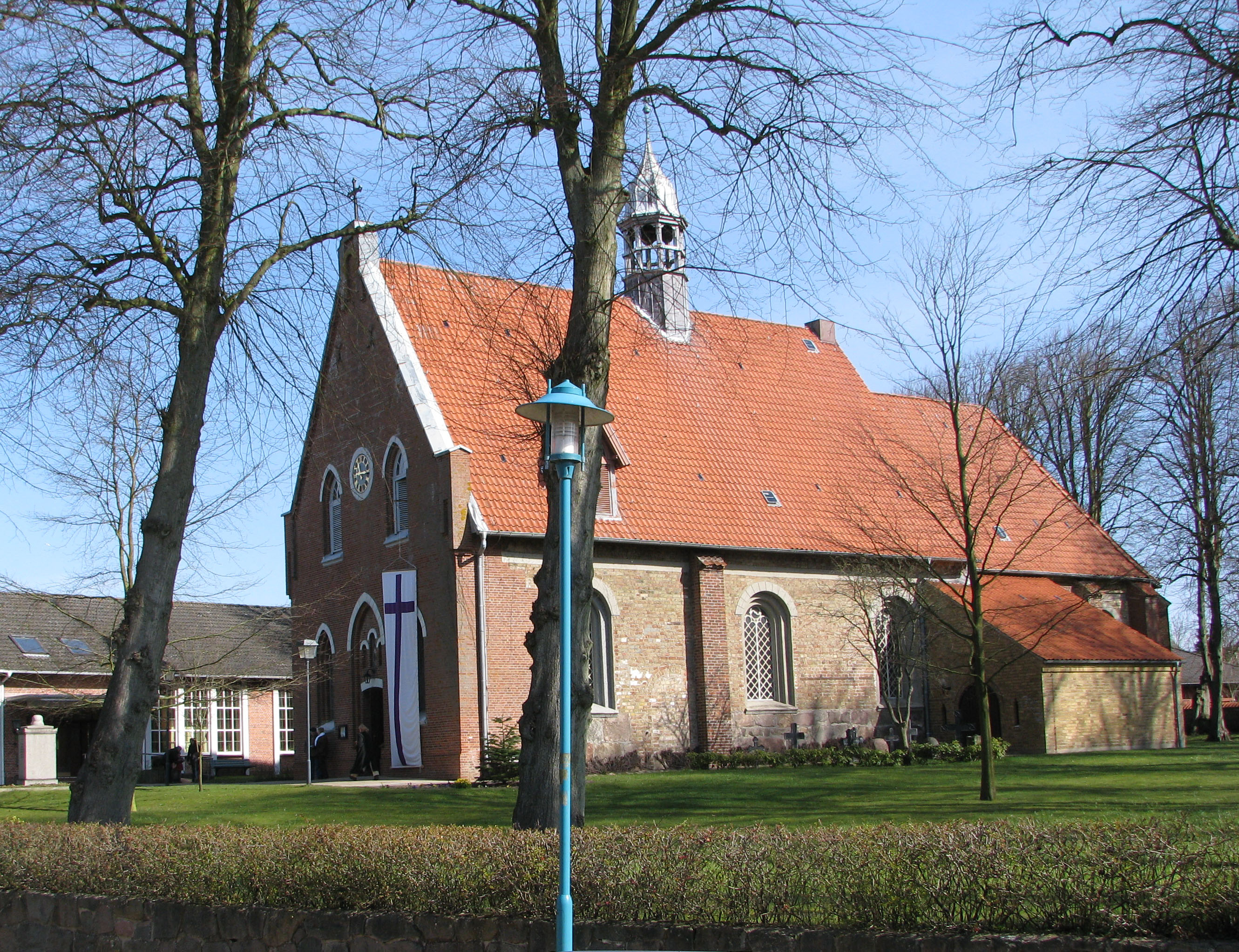 ev.-luth. St. Nicolai-Church in Bredstedt, North Frisia, Germany